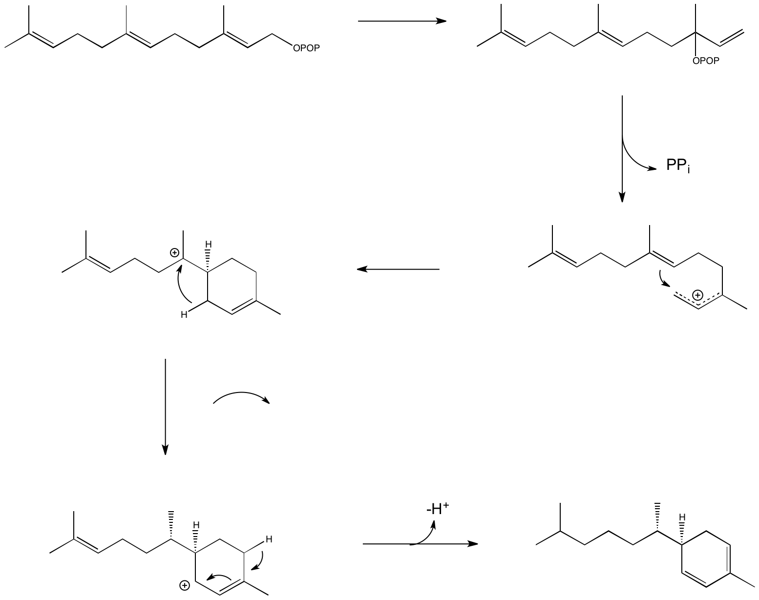 Zingiberene Biosynthesis